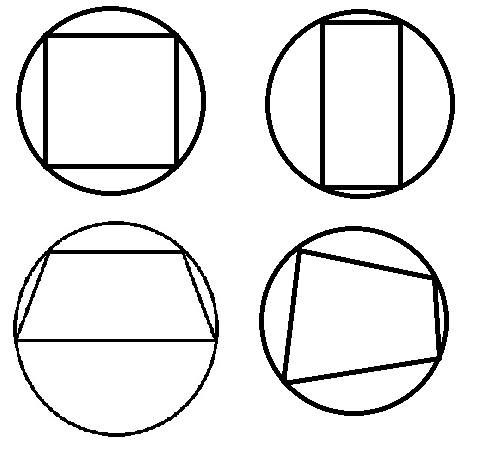 The circles circumscribed around the rectangles.